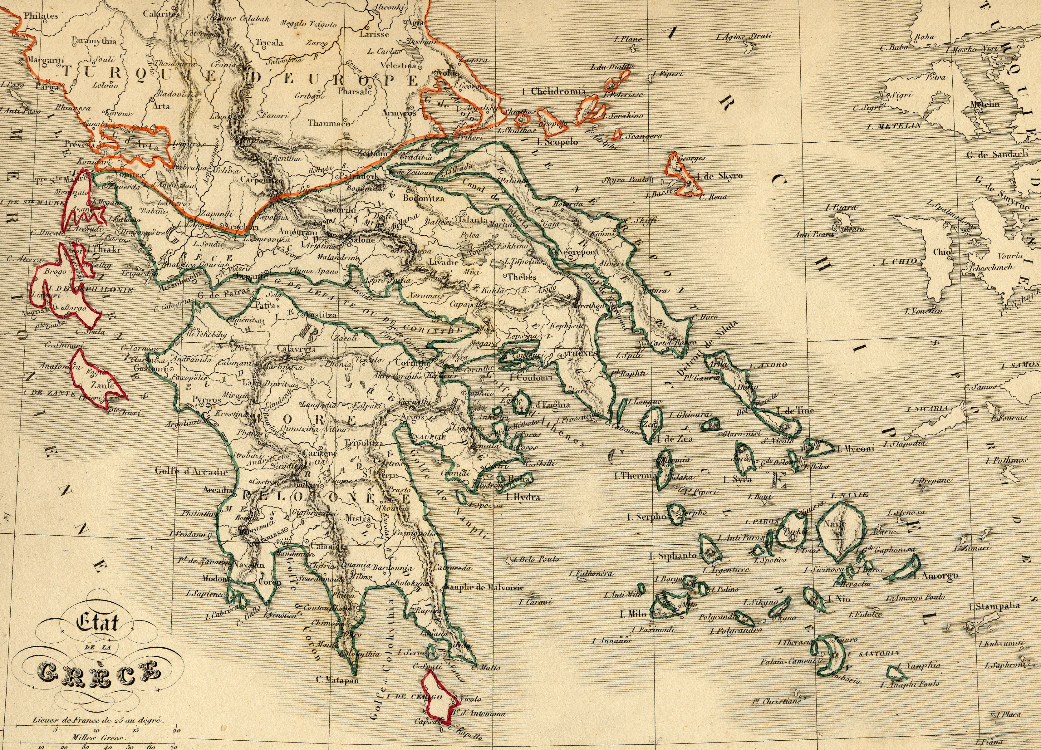 Map of Greece (wp-EN) with french names made by Alexandre Vuillemin in 1843 extracted from his “Atlas universel de géographie ancienne et moderne à l'usage des pensionnats”. Owner of the map added the coloured lines Where green outlines Greece and red outlines the United States of the Ionian Islands. The north frontier doesn't correspond to Greek frontier at the time.